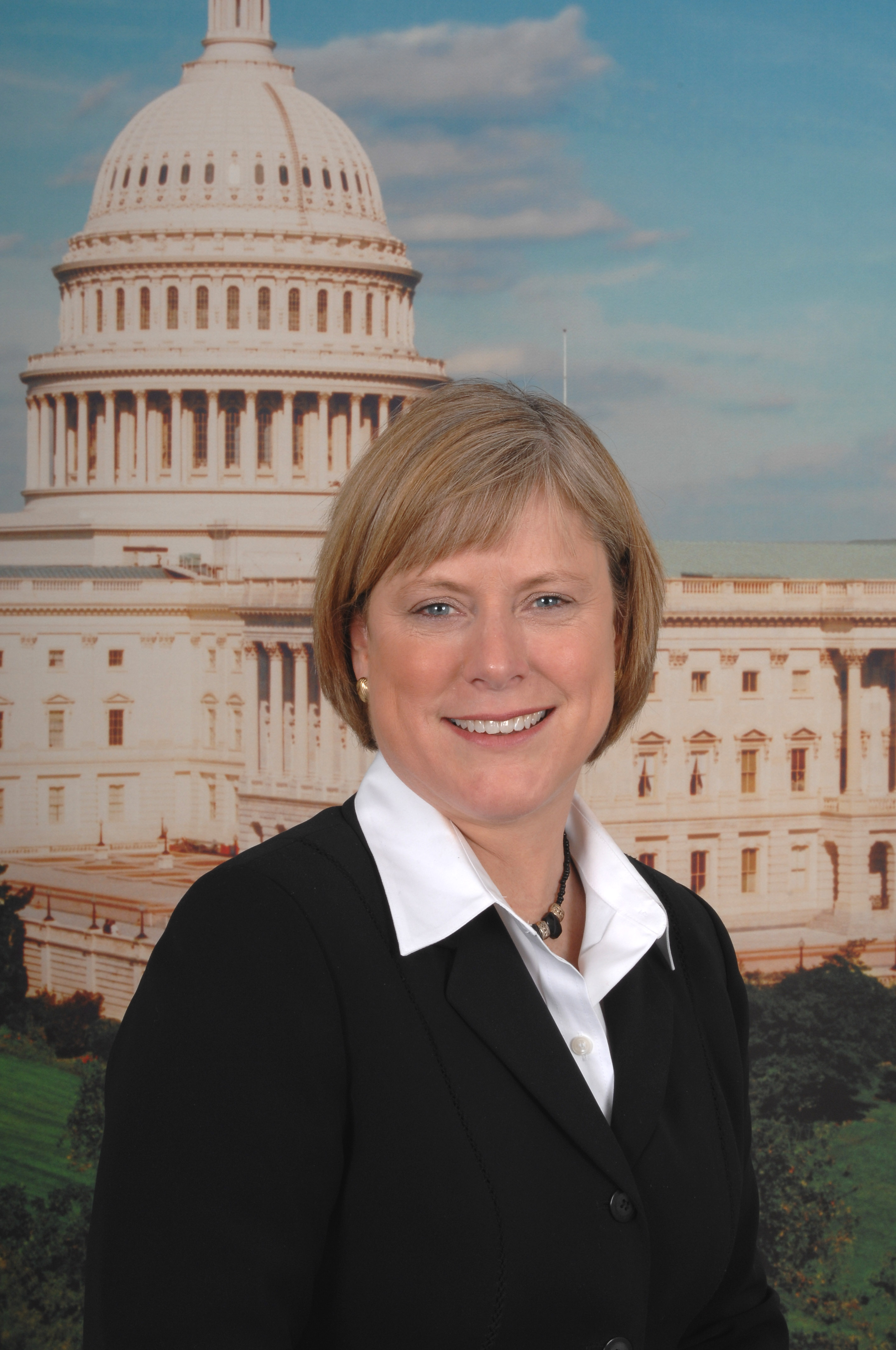 Nancy Boyda, member of the United States House of Representatives.